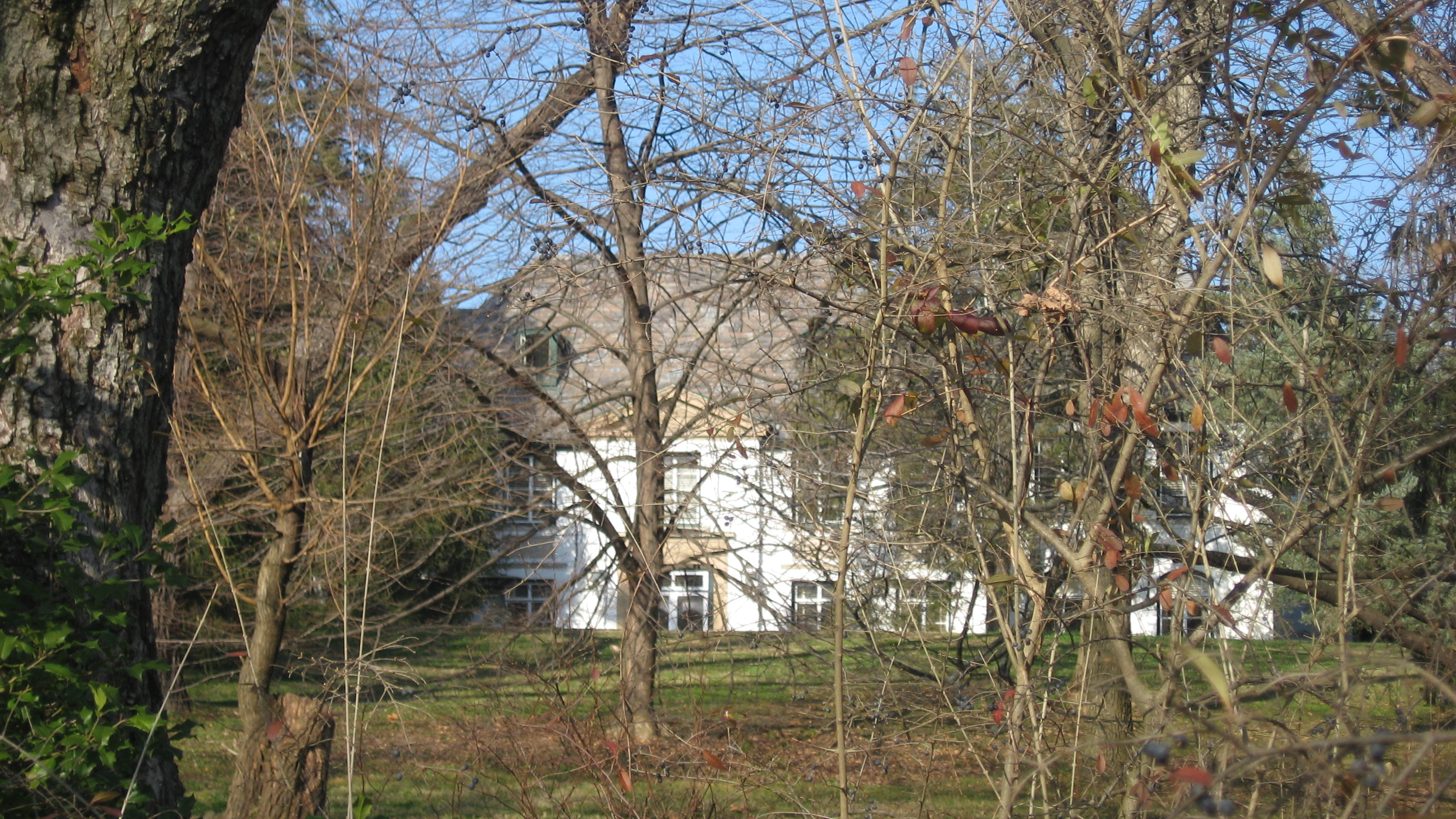 View through the trees of the Edgar A. Igleheart House, located at 5500 Lincoln Avenue in Evansville, Indiana, United States. Built in 1932, it is listed on the National Register of Historic Places.